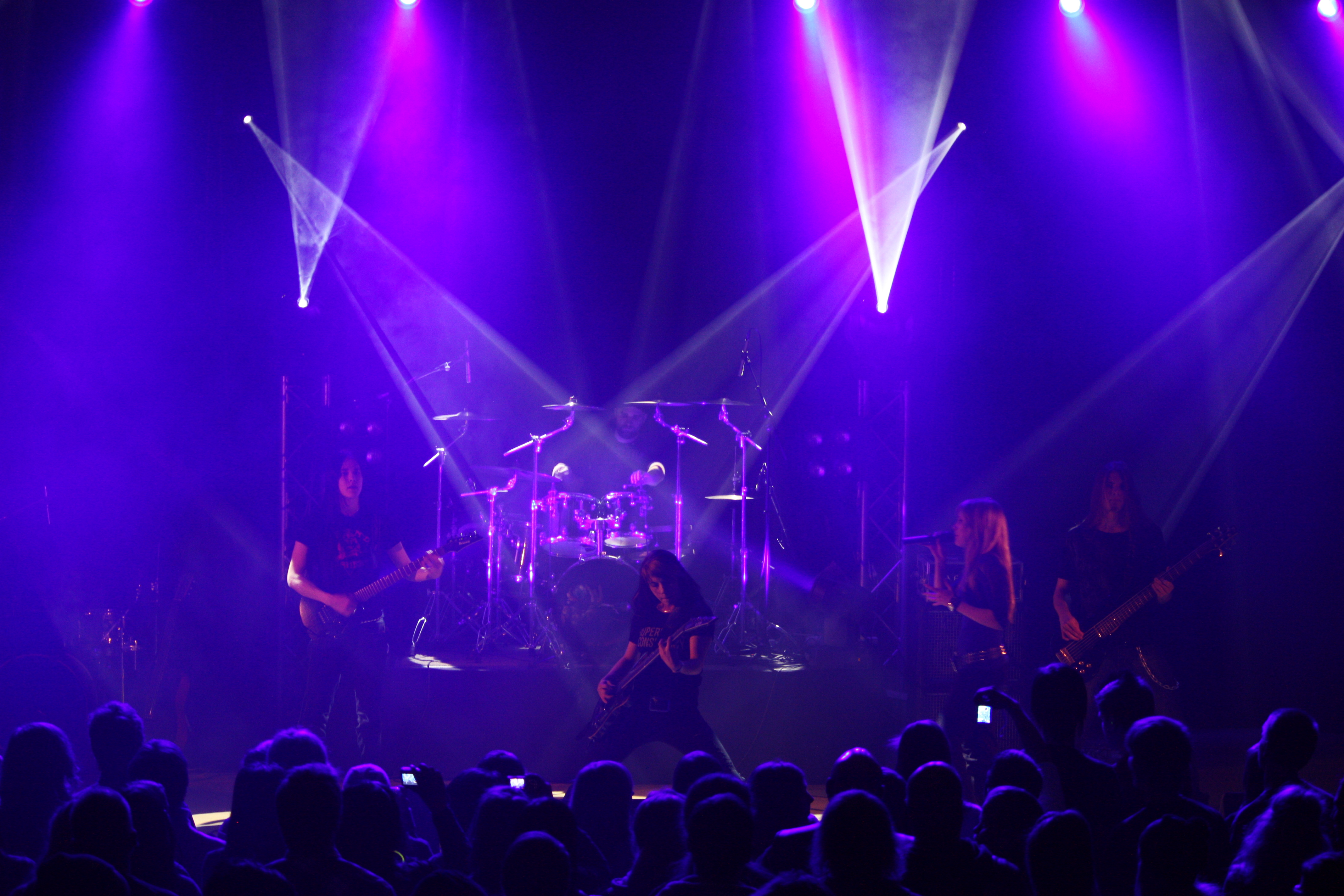 Finnish Gospel band HB performing at Uusi Alku -happening in Lempäälä, 2010.